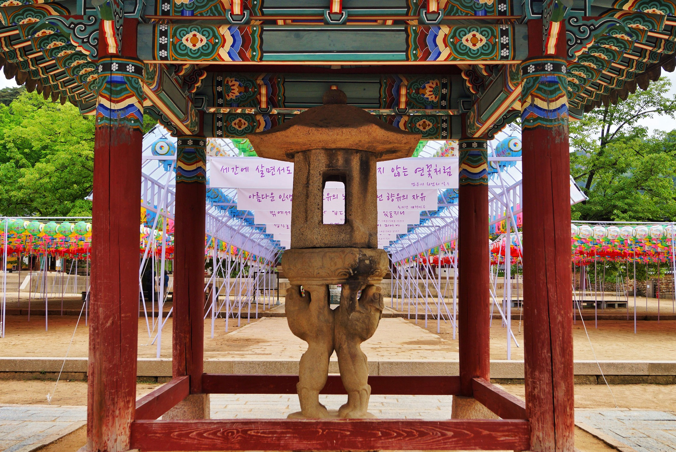 Ssangsajaseokdeung (twin-lion stone lamp), a national treasure found at Beopjusa